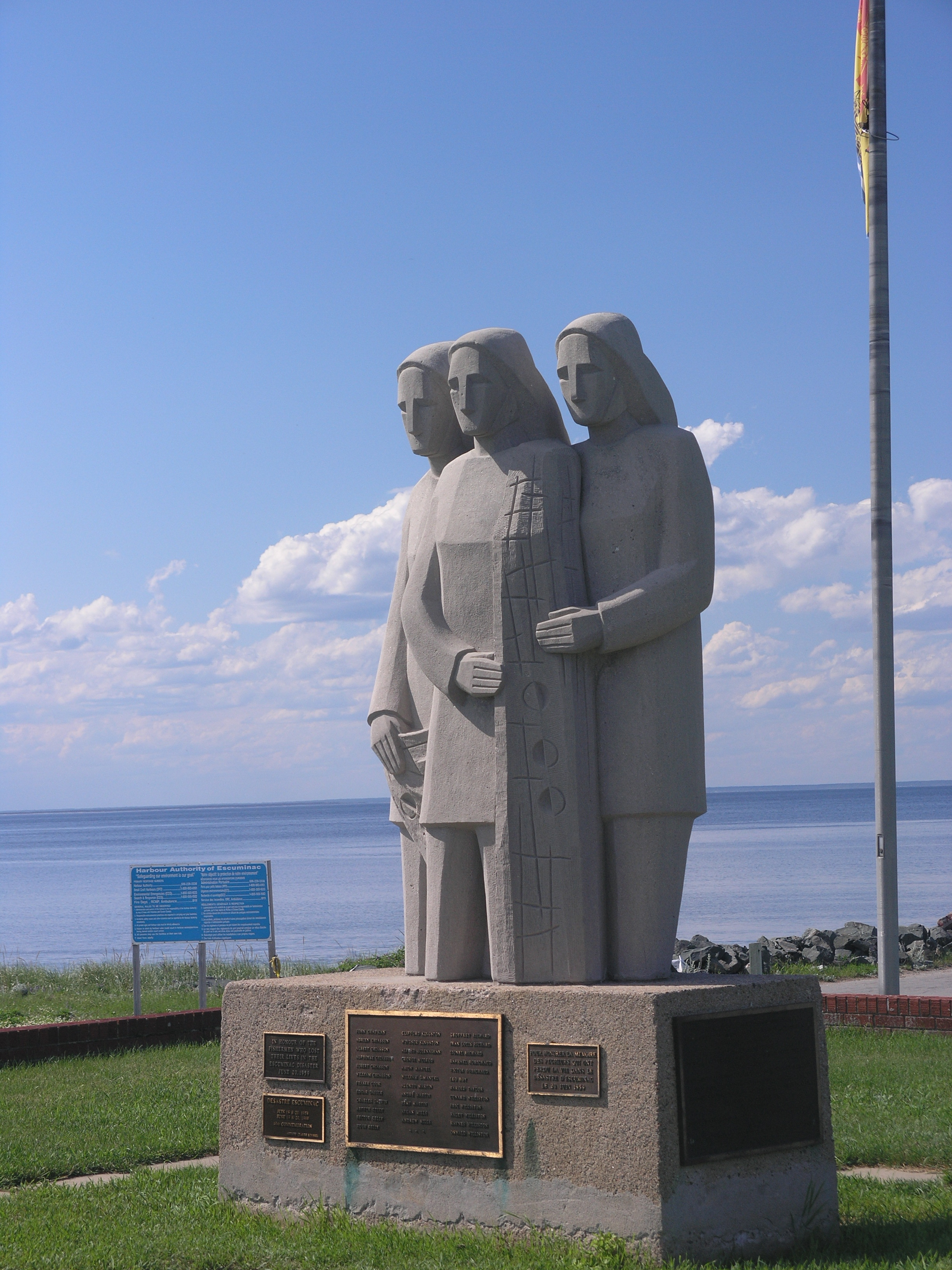 Escuminac Disaster memorial at Escuminac, Miramichi Bay, New Brunswick (IR Walker, 13 July 2007)